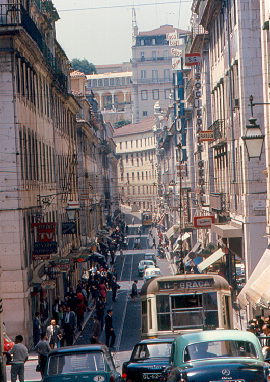 More of Old Lisbon.